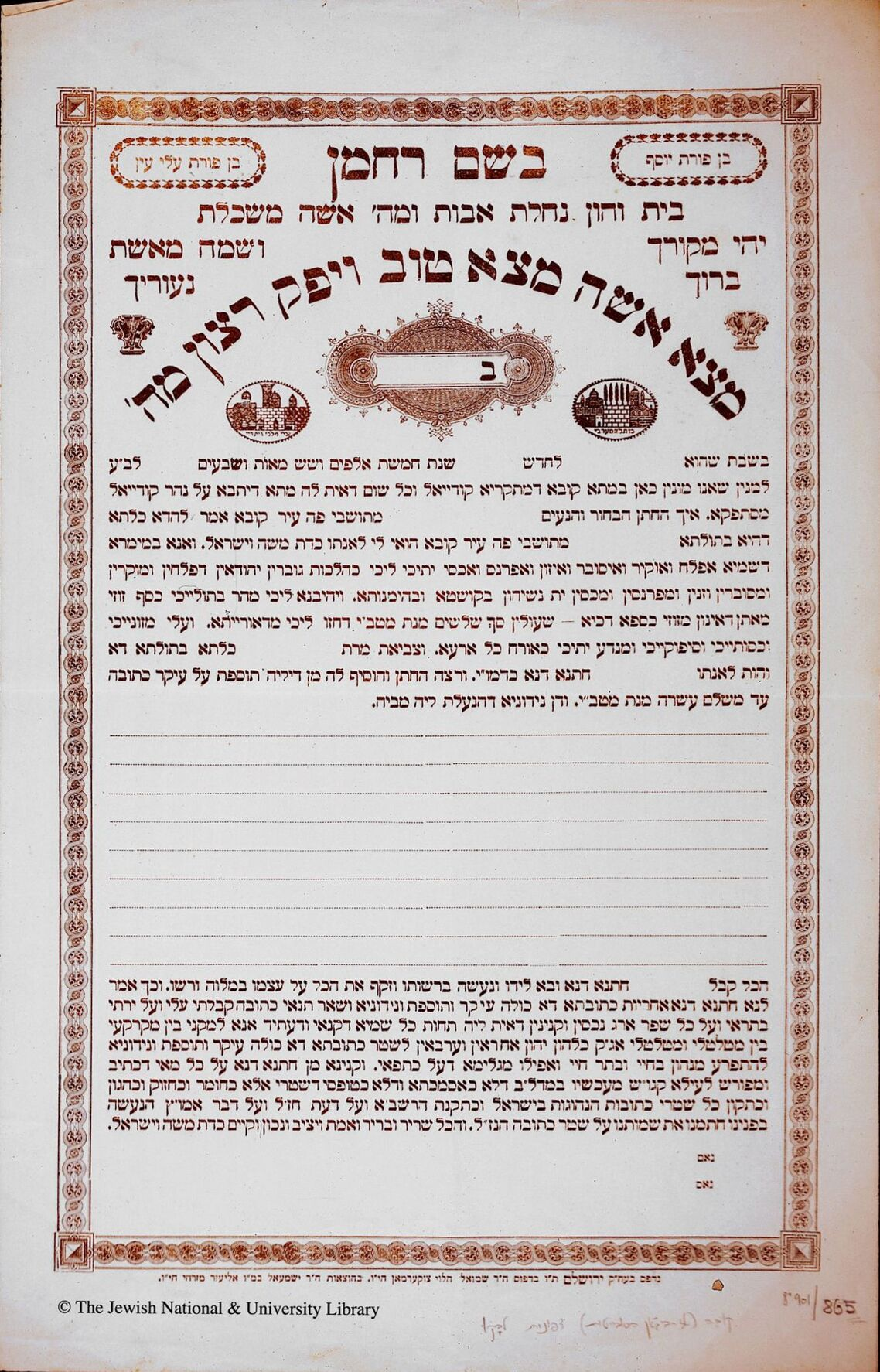 Ketubah from The Ketubot Collection of the National Library of Israel